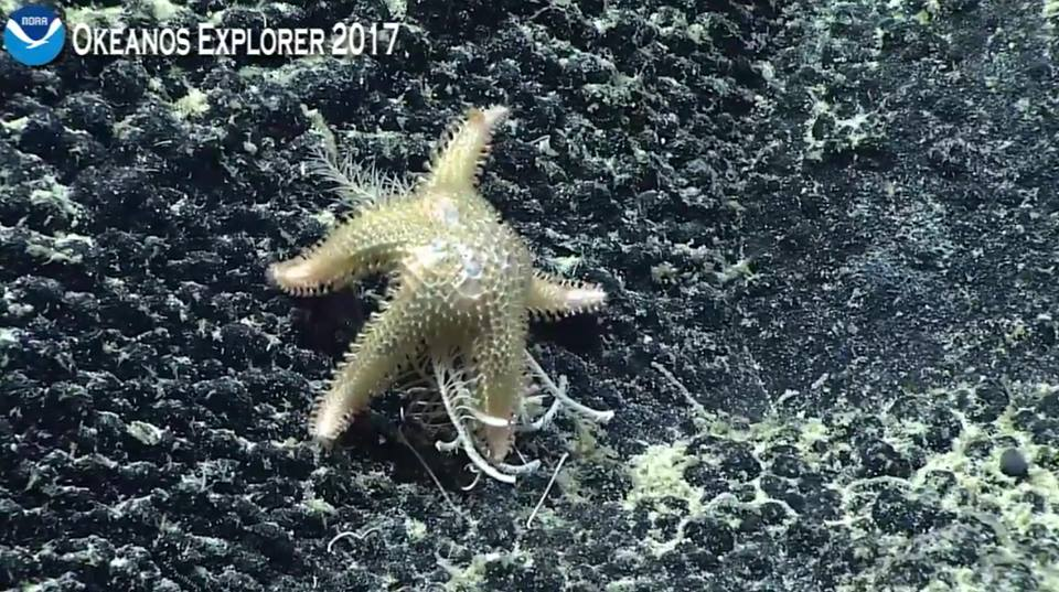 An abyssal sea star sp. eating a crinoid. Picture taken in the abysses of the Pacific ocean by NOAA Okeanos Explorer mission "Mountains in the Deep: Exploring the Central Pacific Basin" in 2017.